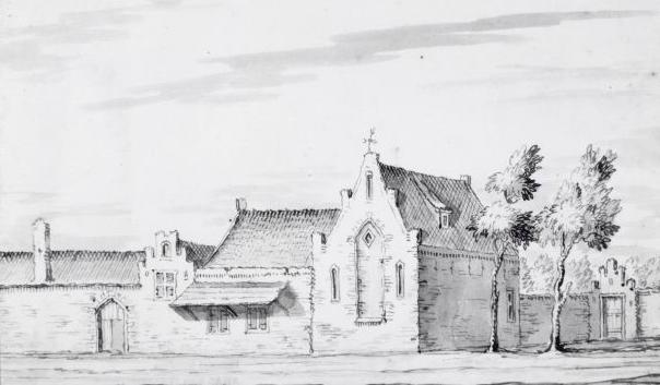 Sint Jansberg monastery.